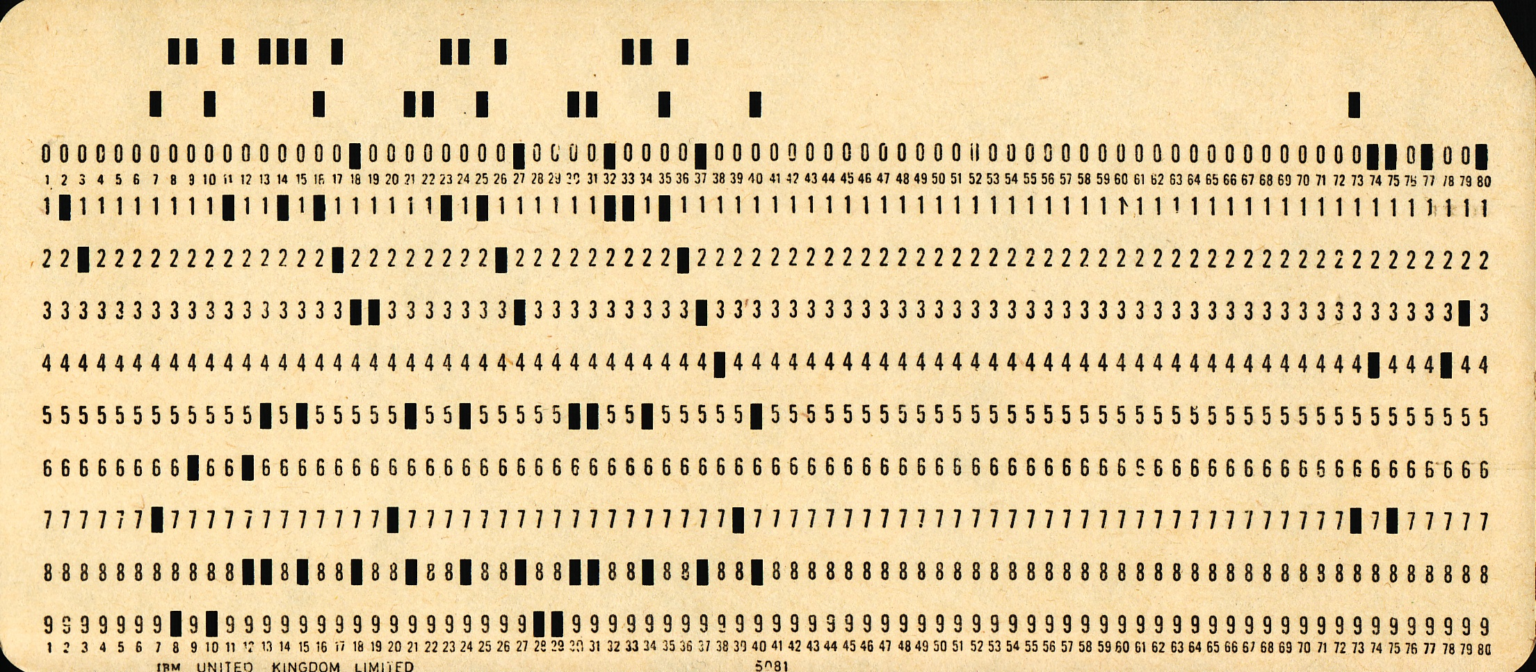 This card was used to load software into a mainframe computer. Each byte (the letter 'A', for example) is entered by punching out a column of holes. Contents appear to be a line from a Fortran program: 12 PIFRA=(A(JB,37)-A(JB,99))/A(JB,47) PUX 0430 where 12 is a statement label and PUX 430, starting in column 73, would typically be a card sequence number. Per author "You may scoff at the low-tech but this data has survived longer than most CD-Rs will last - they rot in a decade or so..."